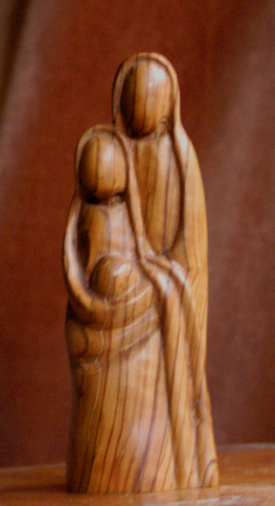 Holy Family. Modern olive wood work from Bethlehem. 2000.